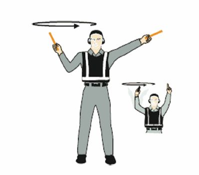 MARSHALLING SIGNALS from a signalman/marshaller to an aircraft / STANDARD EMERGENCY HAND SIGNALS. Description: "Start engine(s)". Raise right arm to head level with wand pointing up and start a circular motion with hand; at the same time, with left arm raised above head level, point to engine to be started.